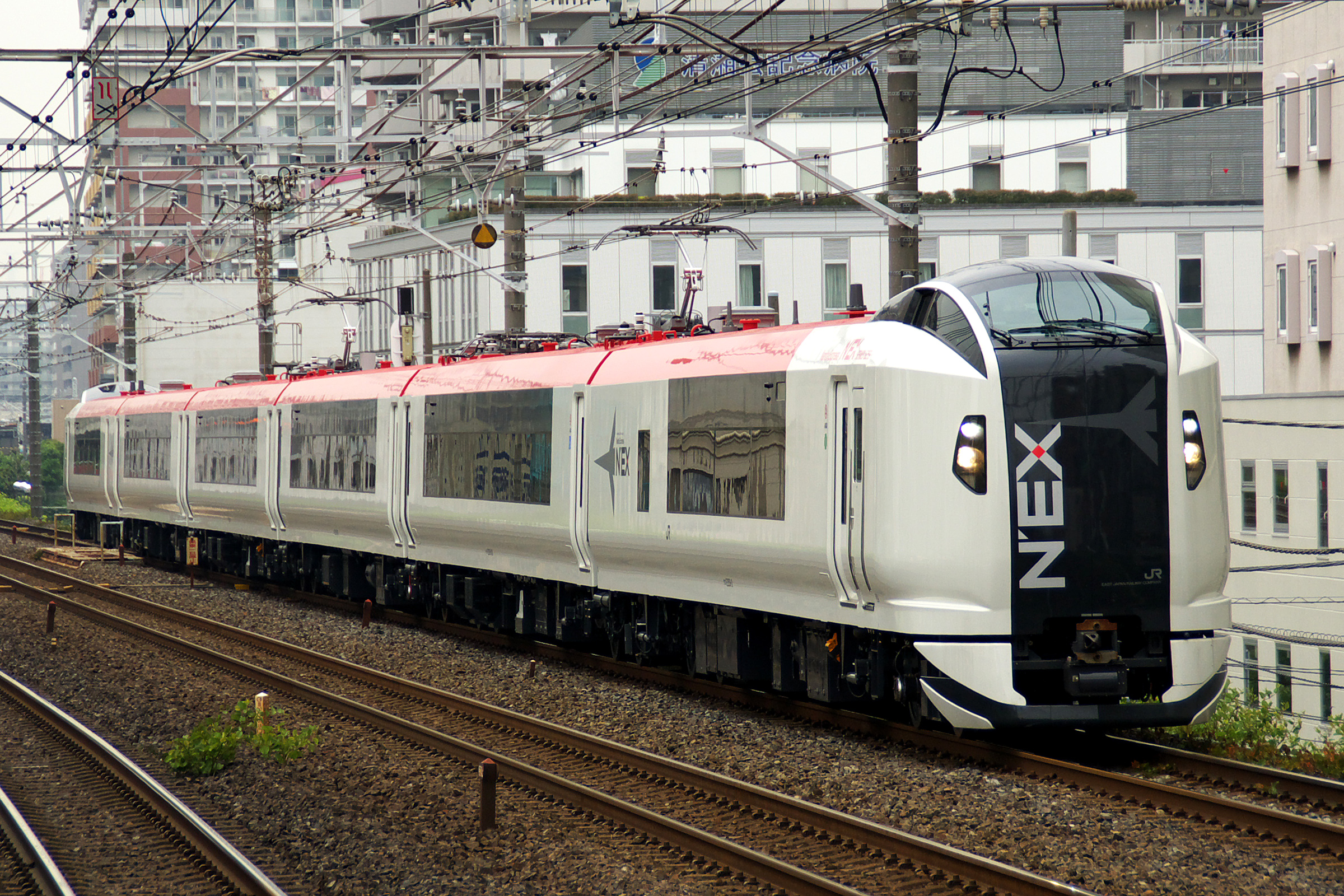 A JR East E259 series EMU on a test run